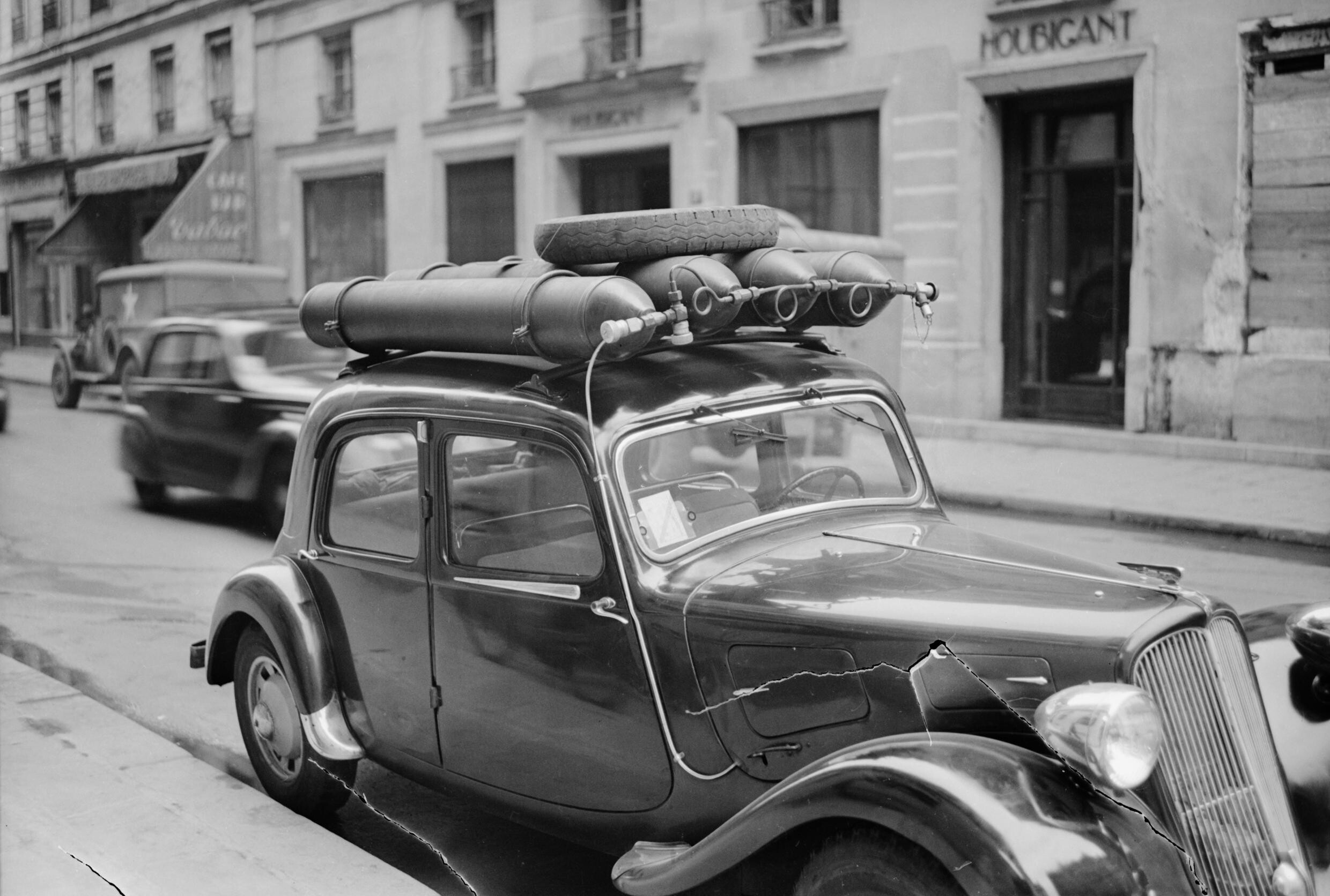 Parisian Traffic, Spring 1945- Everyday Life in Paris, France, 1945 A view of a Paris street, showing a car which has been converted to run on gas, rather than petrol. There are four gas cylinders attached to the roof of the car, and a small tube runs downs the side of the car and under the bonnet.